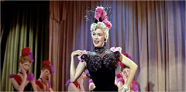 Screenshot of Jayne Mansfield from the trailer for the film The Sheriff of Fractured Jaw (1959)